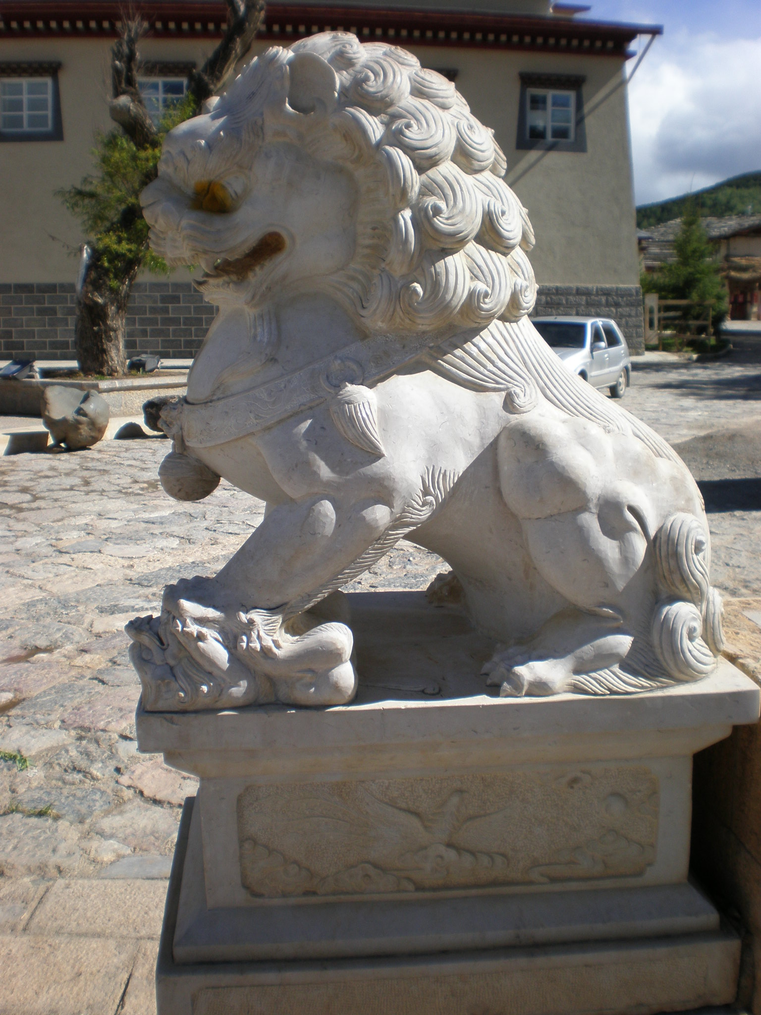 A lion at the entrance to Guishan Temple in the Old Town of Shangri-La, Yunnan.